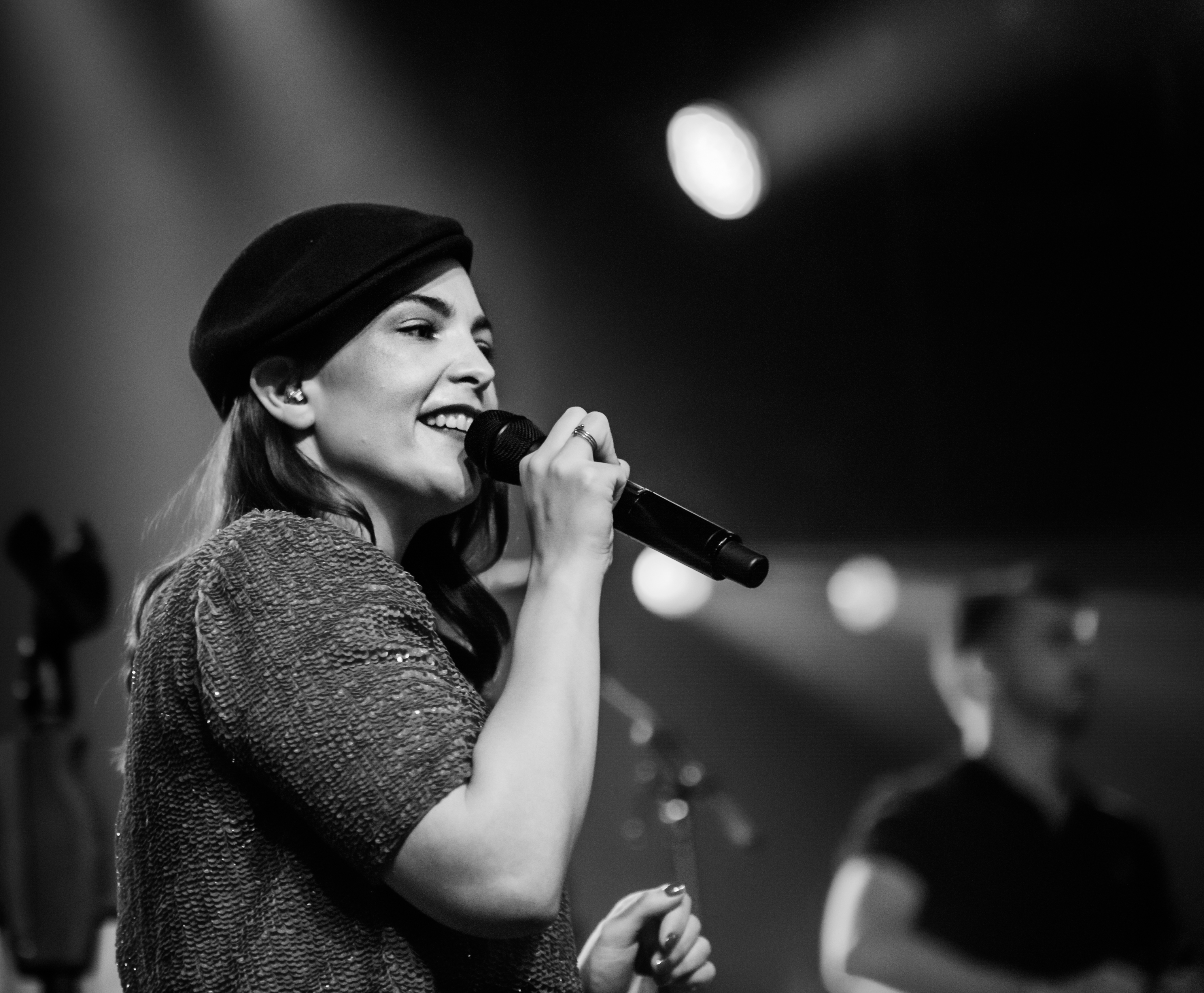 Caro Emerald - Leverkusener Jazztage 2017